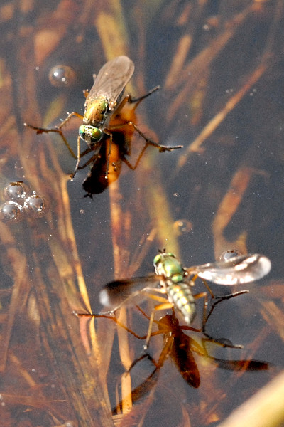 Poecilobothrus nobilitatus from Commanster, Belgian High Ardennes .